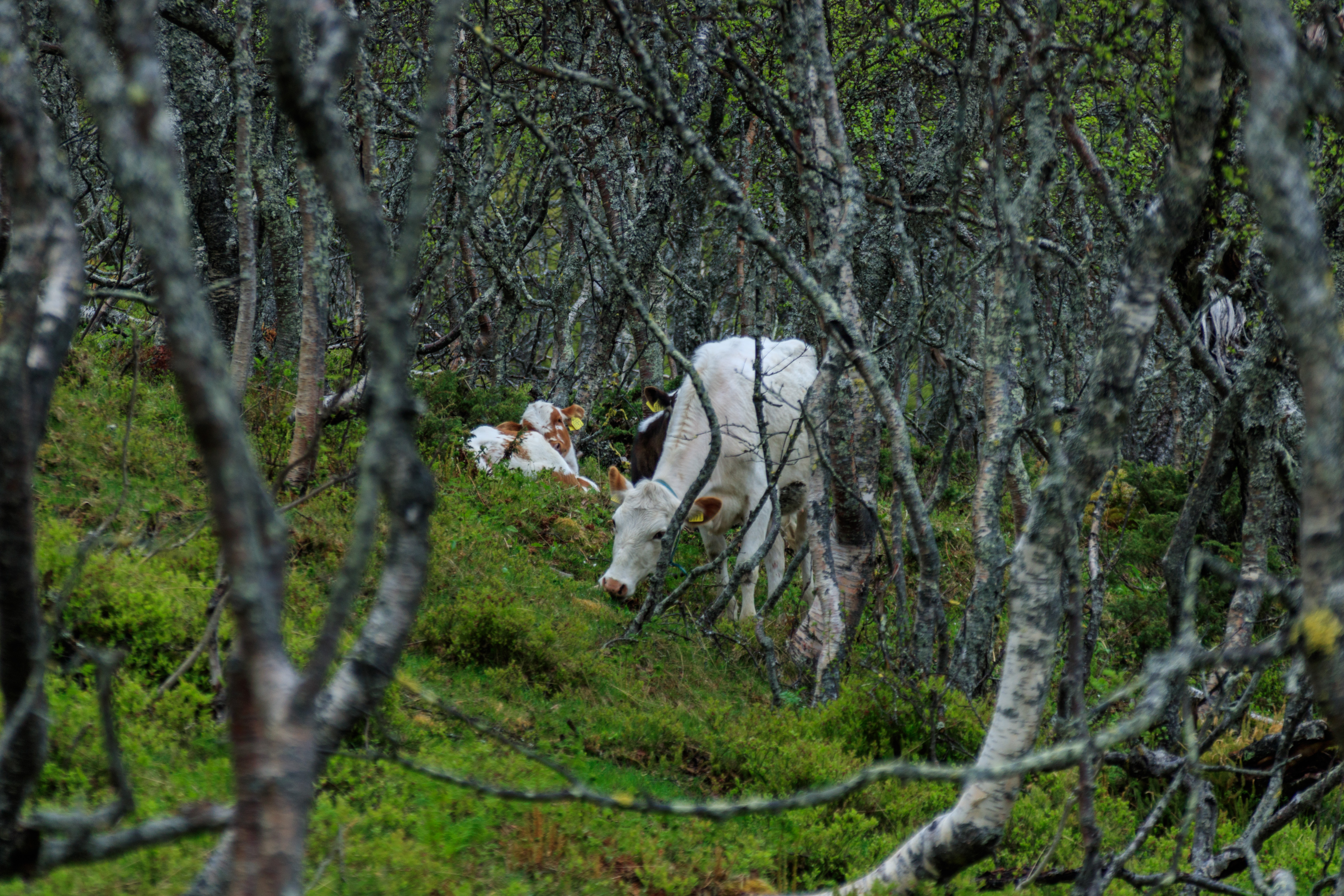 Fjällcow in the forest in Nyvallens nature reserve